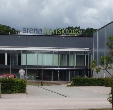 Arena Karlskrona is a multi-purpose sporting arena for indoors and outdoors, located in Karlskrona, Sweden.